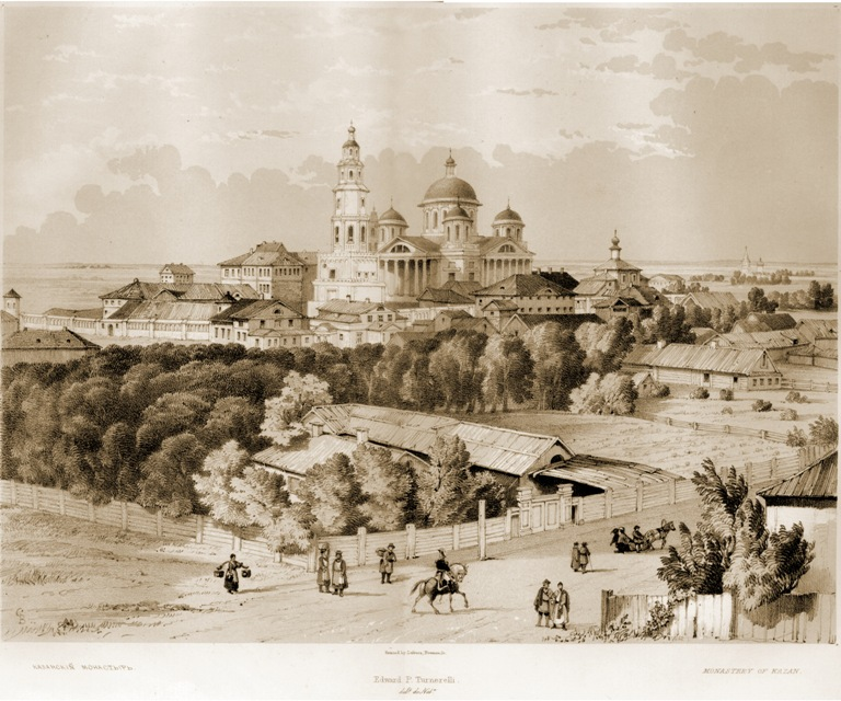 View of Kazanskiy Bogoroditskiy Monastery built on the spot where miraculous icon of Our Lady of Kazan was discovered, second quarter 19 century